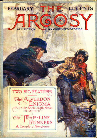 The Argosy, February 1915